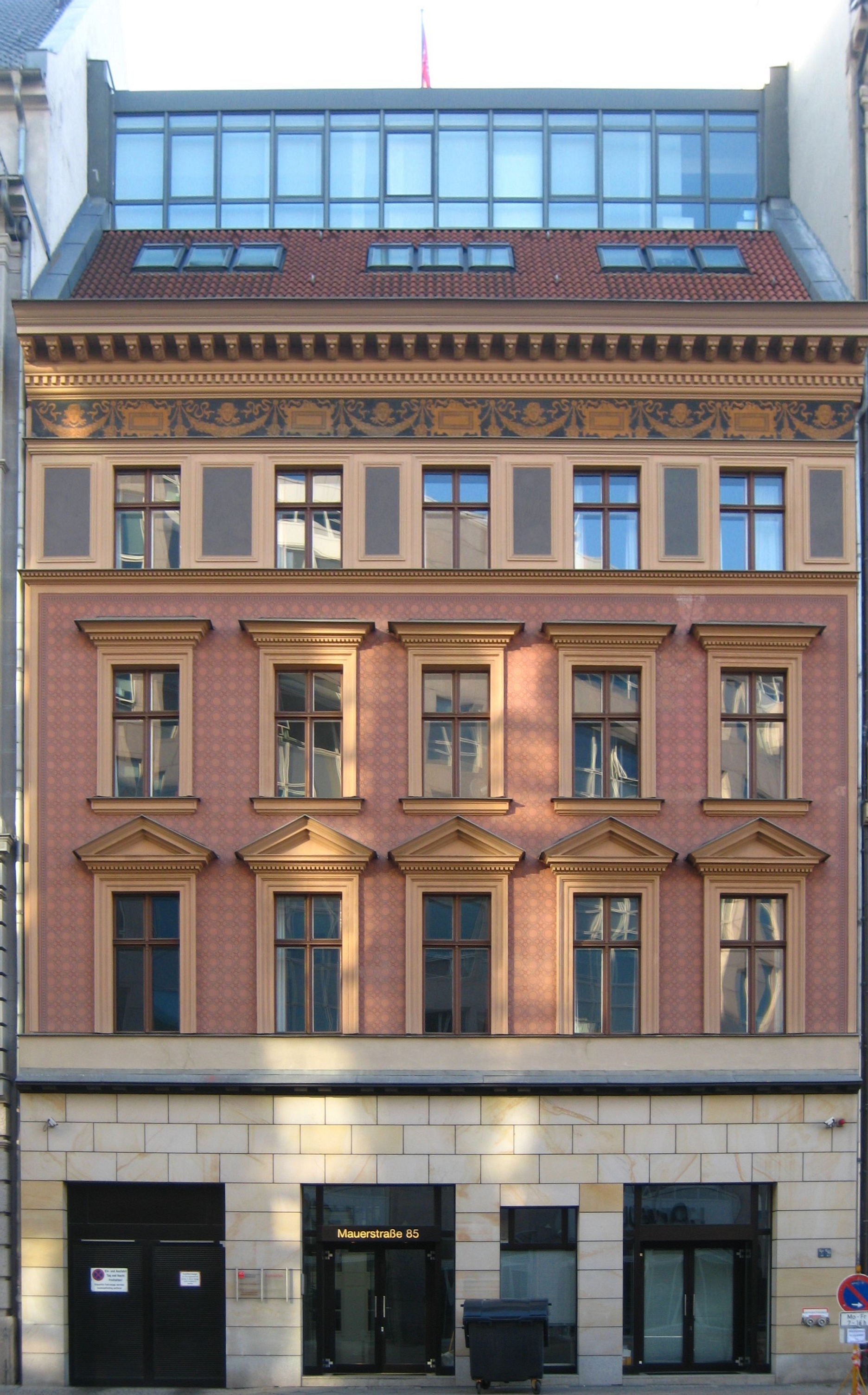 Residential and commercial building at Bethlemkirchplatz in Berlin-Mitte, Mauerstraße 85, built in 1839. After 1937 it was the seat of the "Likörfabrik und Weinhandlung Julius Kahlbaum" ("Liquor factory and wine store Julius Kahlbaum"). The facade painting, an uncommon view in the center of today's Berlin, was restored in 1996-1998.